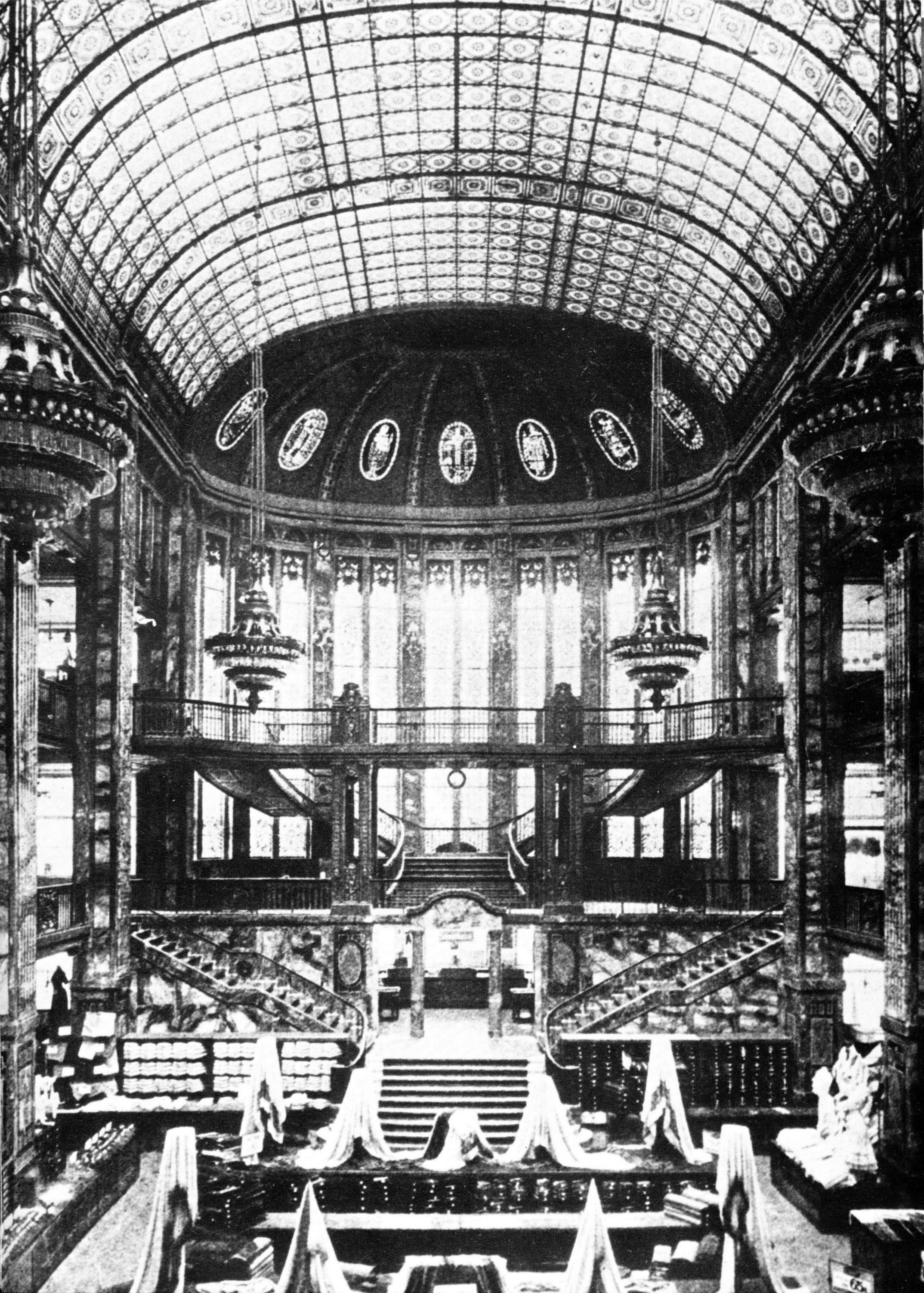 Atrium in the annex building of the department store Hermann Tietz at Alexanderplatz in Berlin